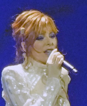 Mylène Farmer during her Timeless 2013 show, 10 September 2013, at Paris-Bercy, France